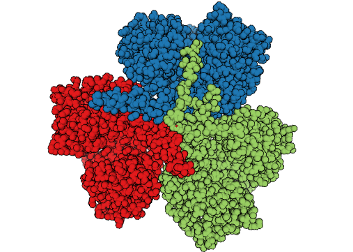 N-terminal region of Huntingtin wiht its 3 sub-units coloured